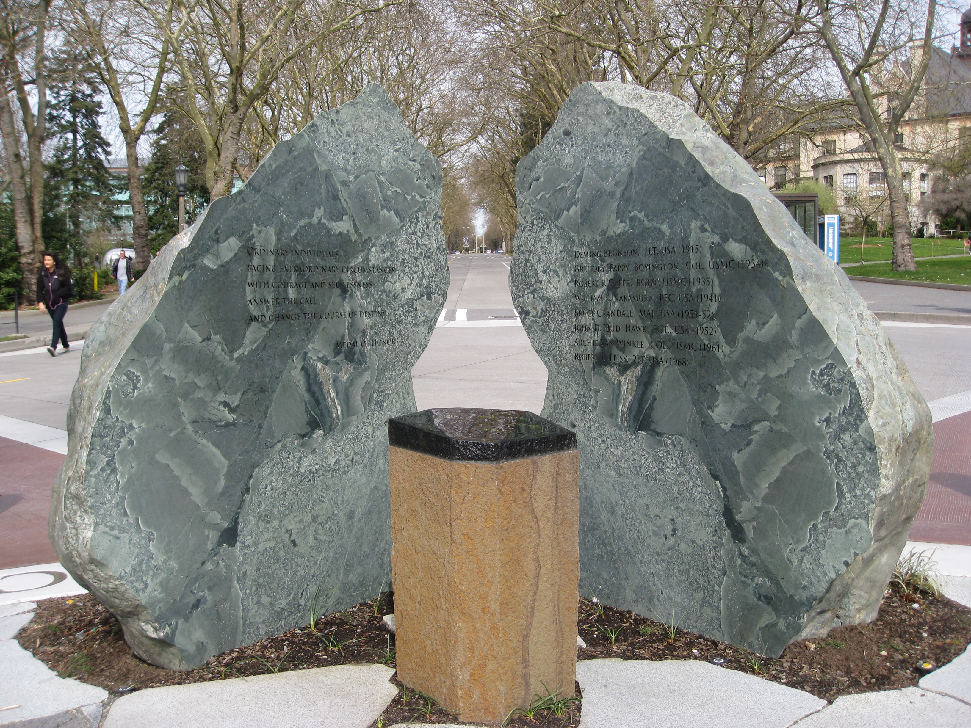 I am glad the my university added this memorial, it was dedicated September 2009 While I might not agree with the politics behind some of these wars, I do respect the sacrifice of these people Honorees Mike Magrath, Chief Designer, worked for months with Heidi Wastweet, sculptor and Dodi Fredericks, landscape architect to design and build the UW Medal of Honor Memorial. Here is the story of the symbolism and passion that went into this creation. Creating the Memorial! Construction Details Construction Details seawt10 285